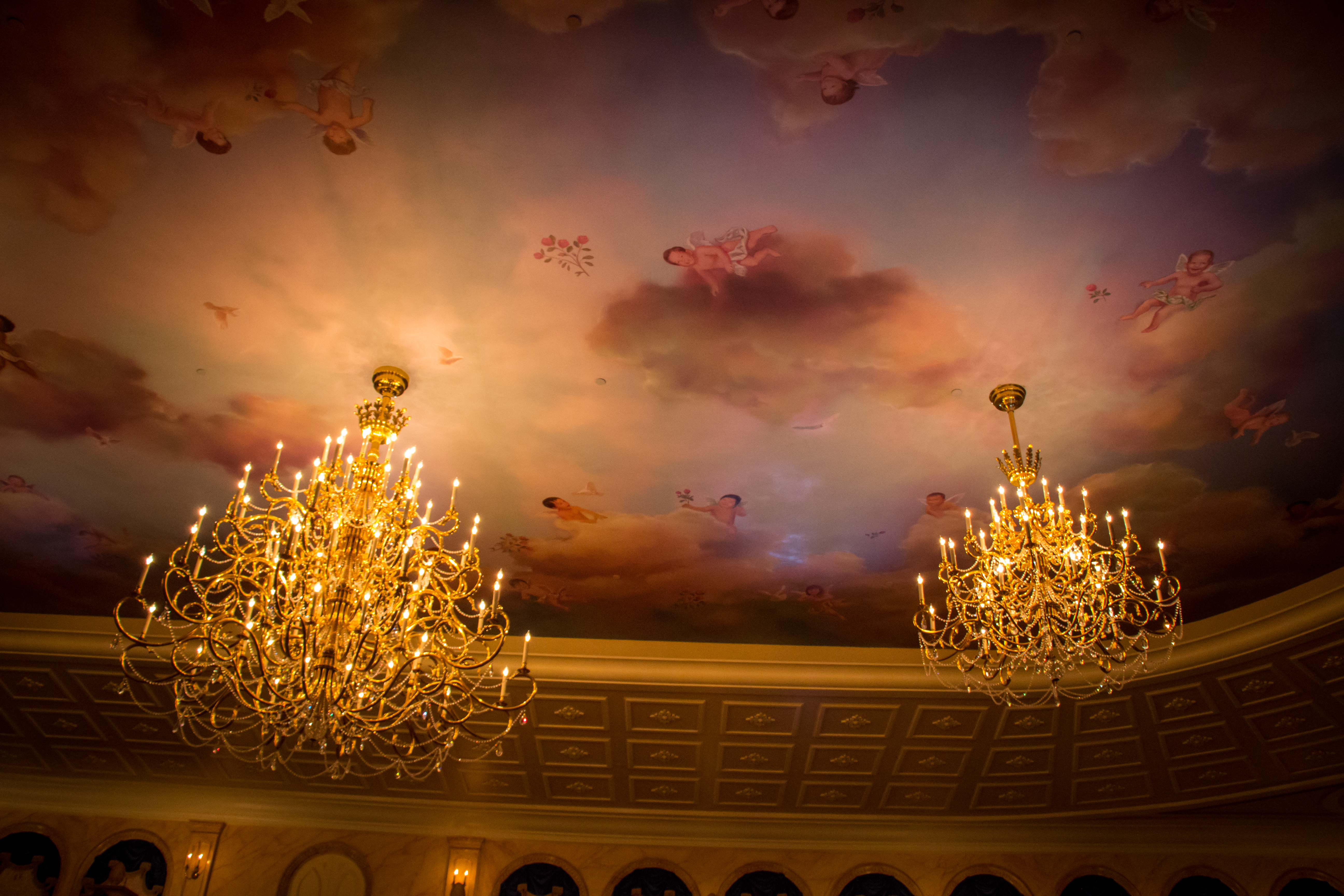 A look at the beautiful ballroom ceiling in the Be Our Guest Restaurant in Fantasyland at the Magic Kingdom.